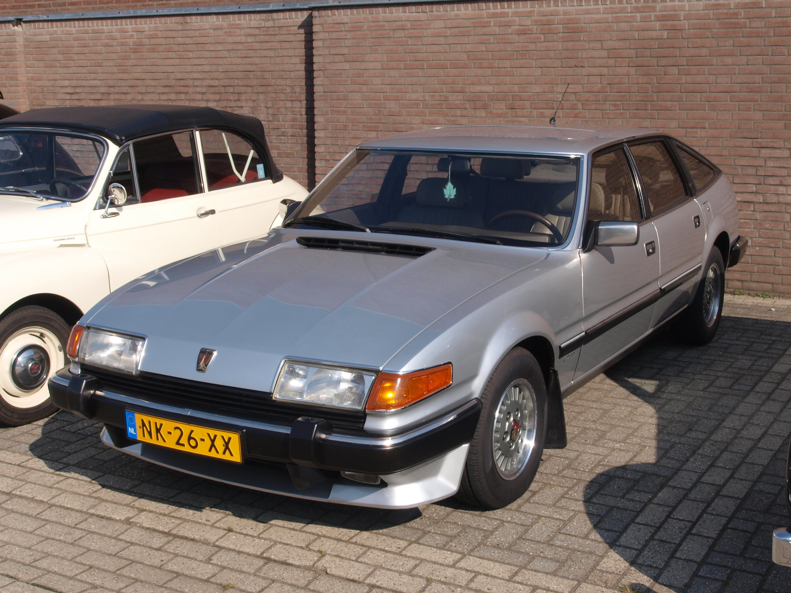 Photographed at the Classic Vehicle meeting 'Klassiek Mechaniek Zeeland 2011', The Netherlands.